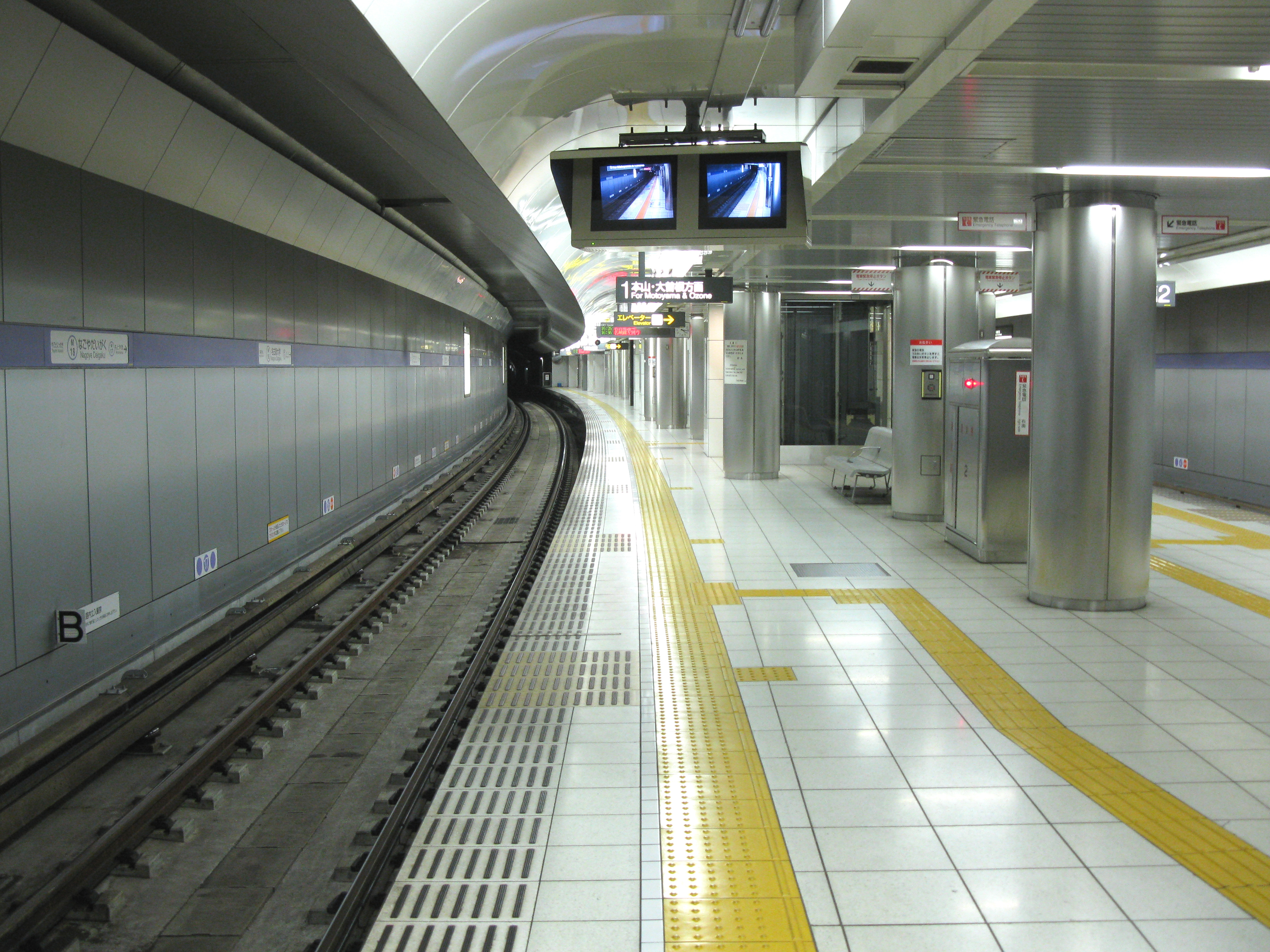 Nagoya Daigaku Station platform (Nagoya Municipal Subway Meijō Line)